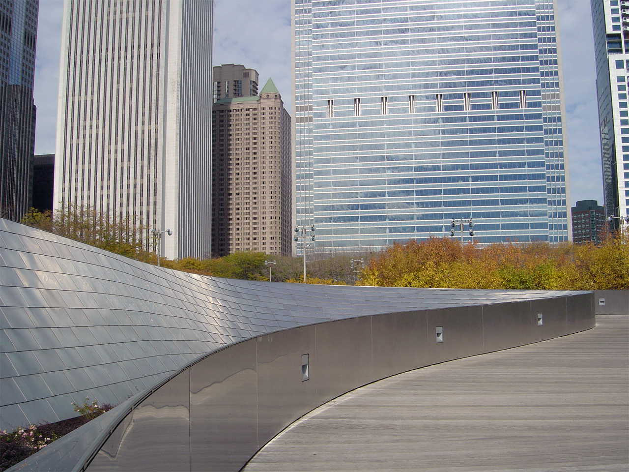 BP Pedestrian Bridge showing absence of handrails